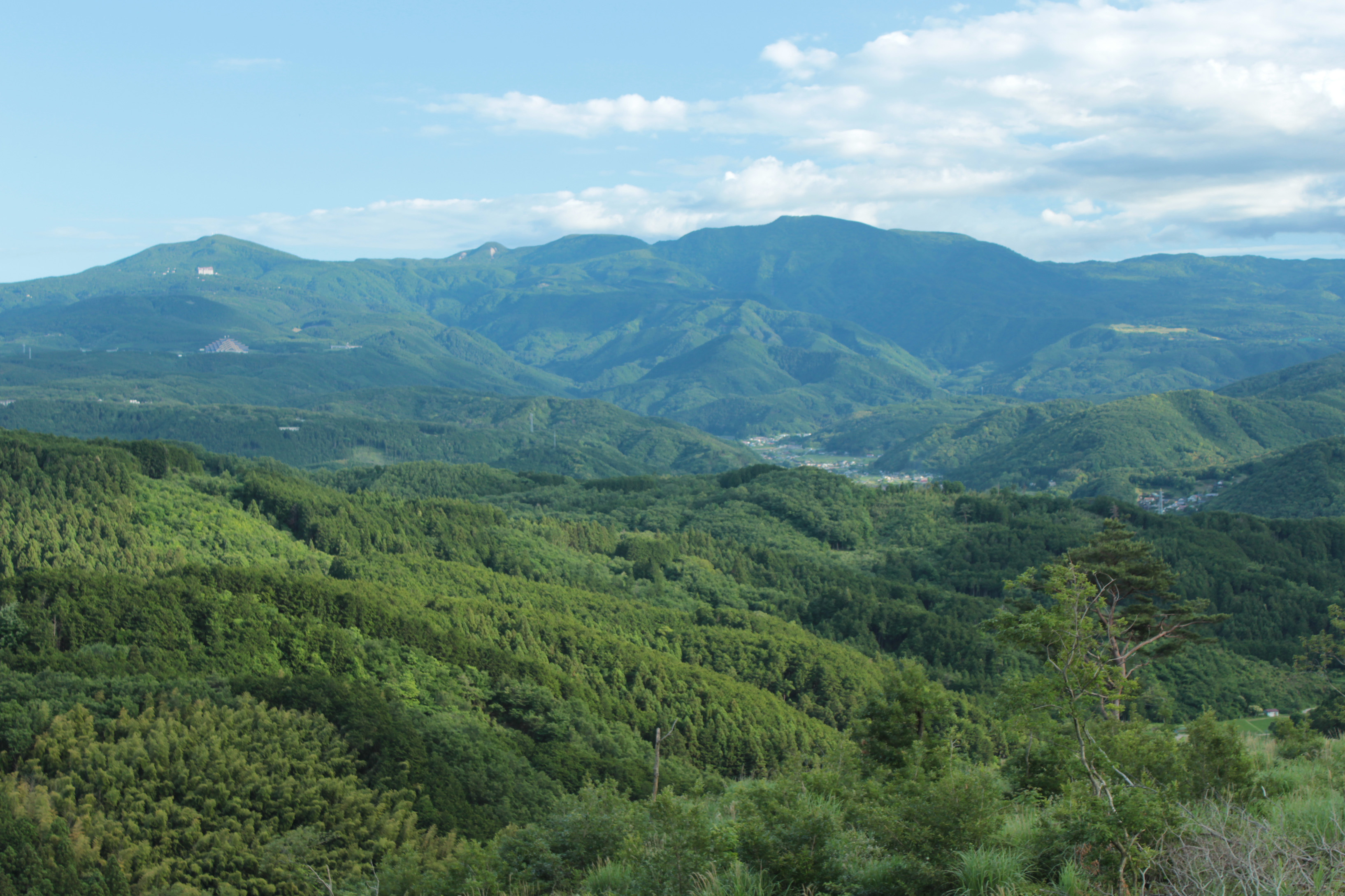 Mount Amagi as seen from the north in Izu, Shizuoka Prefecture, Japan. Which a extinct volcano on Izu Peninsula.